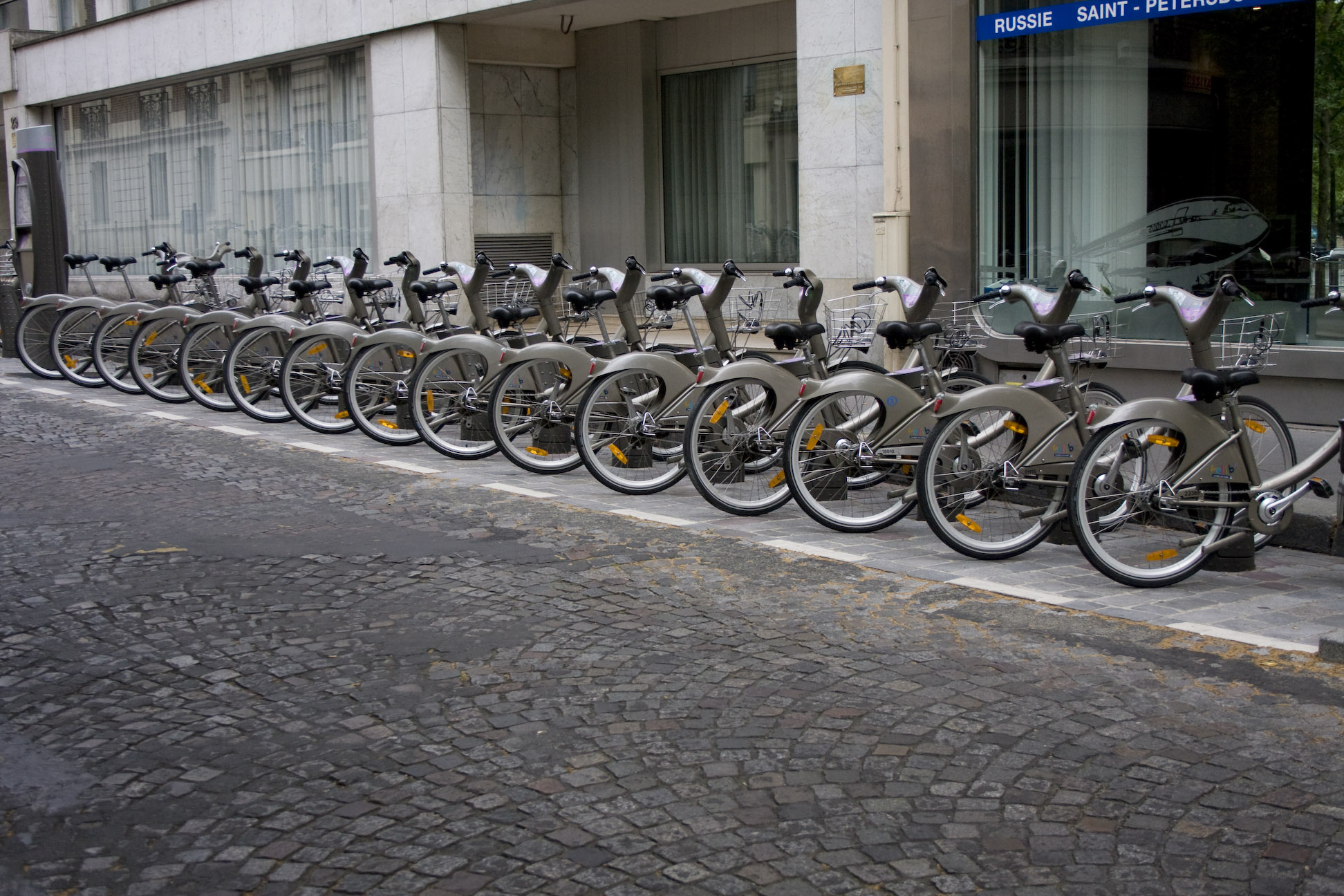 Vélib' parking